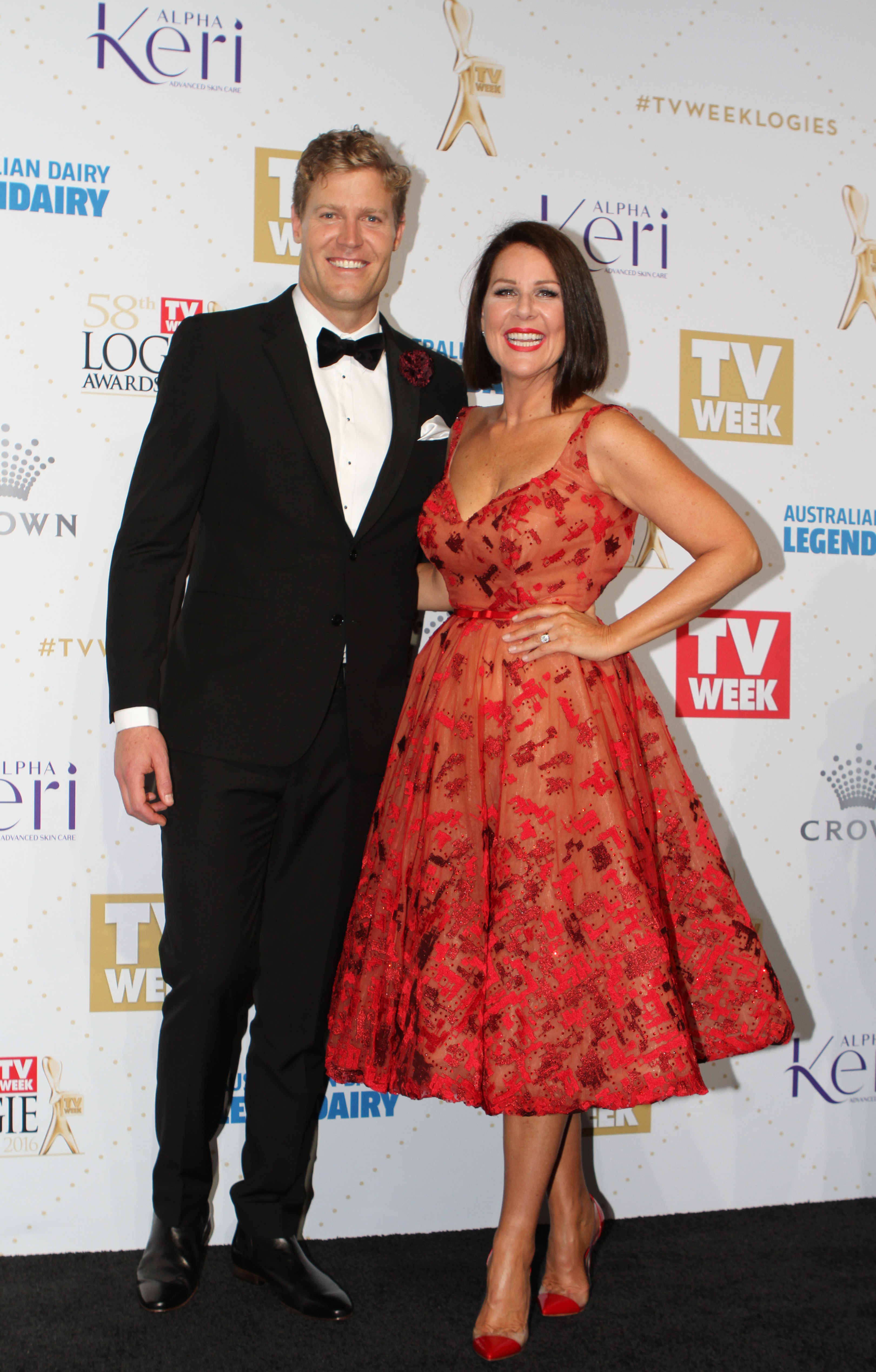 Chris Brown, Julia Morris arrives at the TV Week Logie Awards 58th Annual Crown Palladium